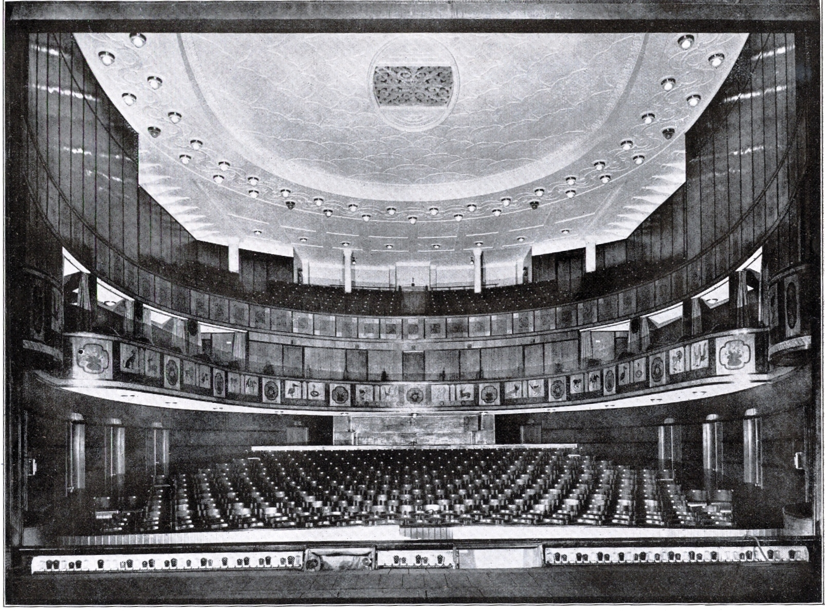 Heilbronn, Altes Theater, Zuschauerraum, von der Bühne aus Bühne gesehen. Quelle - Hugo Licht, Das Stadttheater in Heilbronn, (Der Profanbau), Verlag J. J. Arnd, Leipzig 1913.jpg